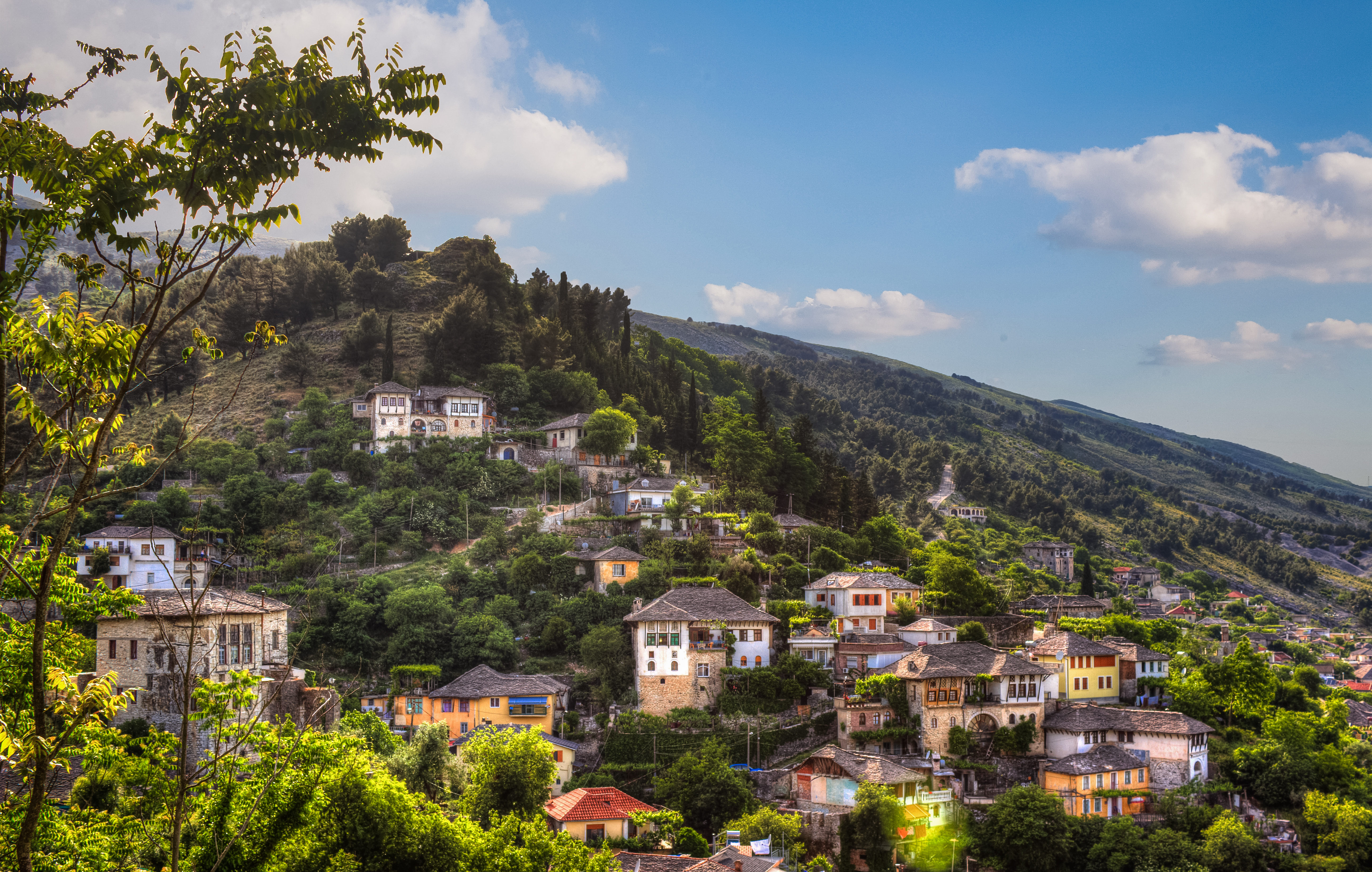 The house of Adem Zeka, in Gjirokaster, Albania. St. "RAMADAN. GOZHITA" NO.17